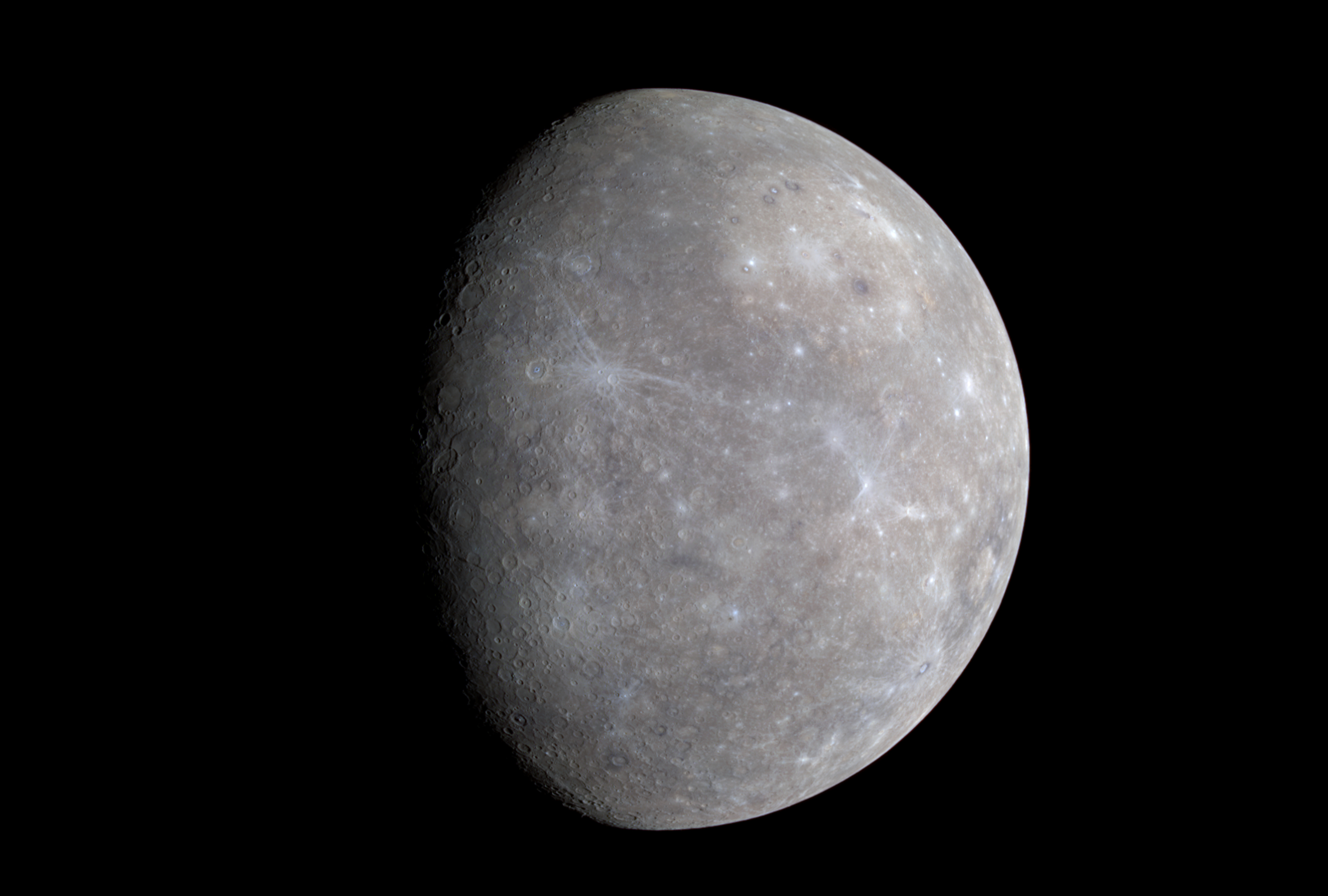 Full color image of from first MESSENGER flyby